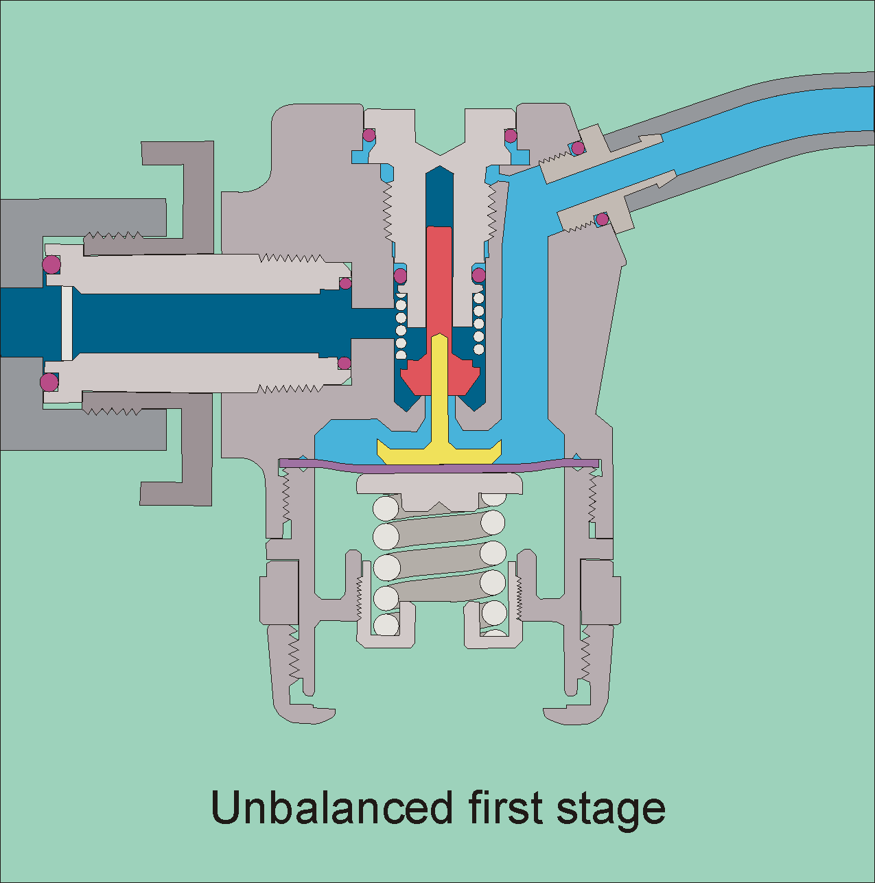 Schematic section of unbalanced diaphragm Scuba regulator first stage